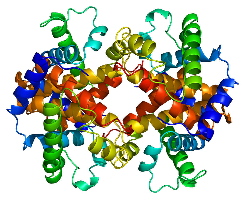 Structure of the HBE1 protein. Based on PyMOL rendering of PDB 1a9w.